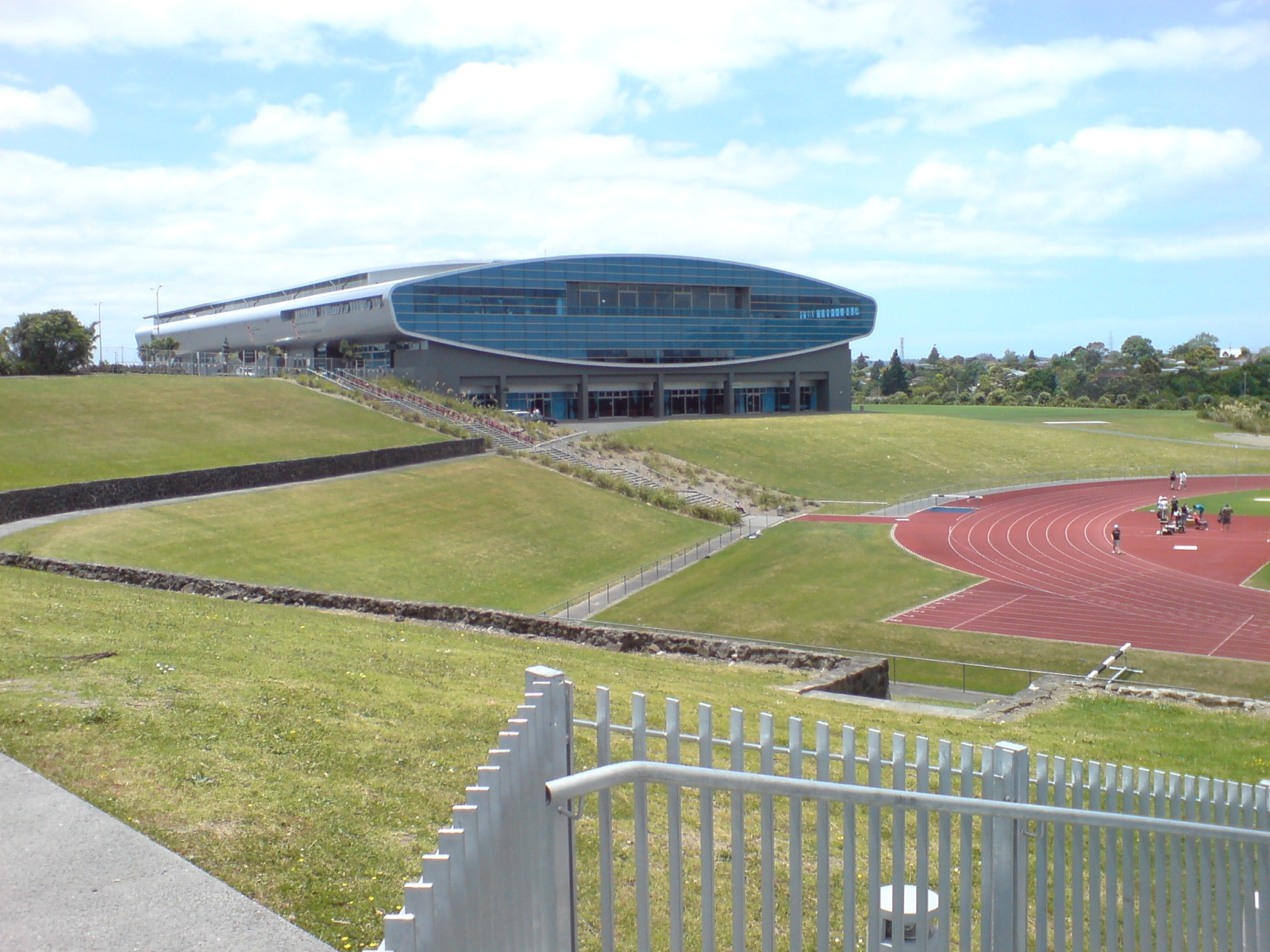 The Trusts Stadium, Waitakere City, New Zealand. Looking northeastwards from Central Park Drive.